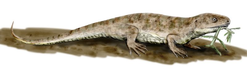 Captorhinus aguti, a captorhinid from the early permian of North America, digital